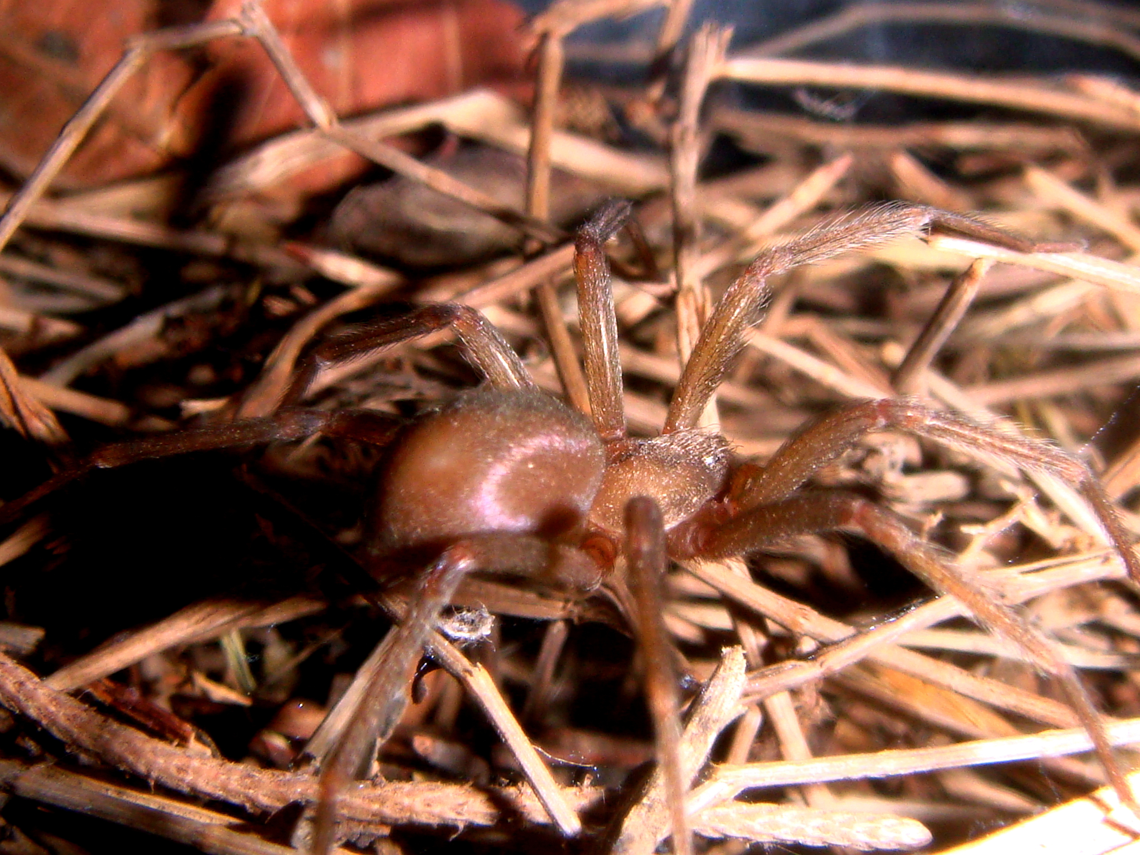 Adult Female Loxosceles Laeta